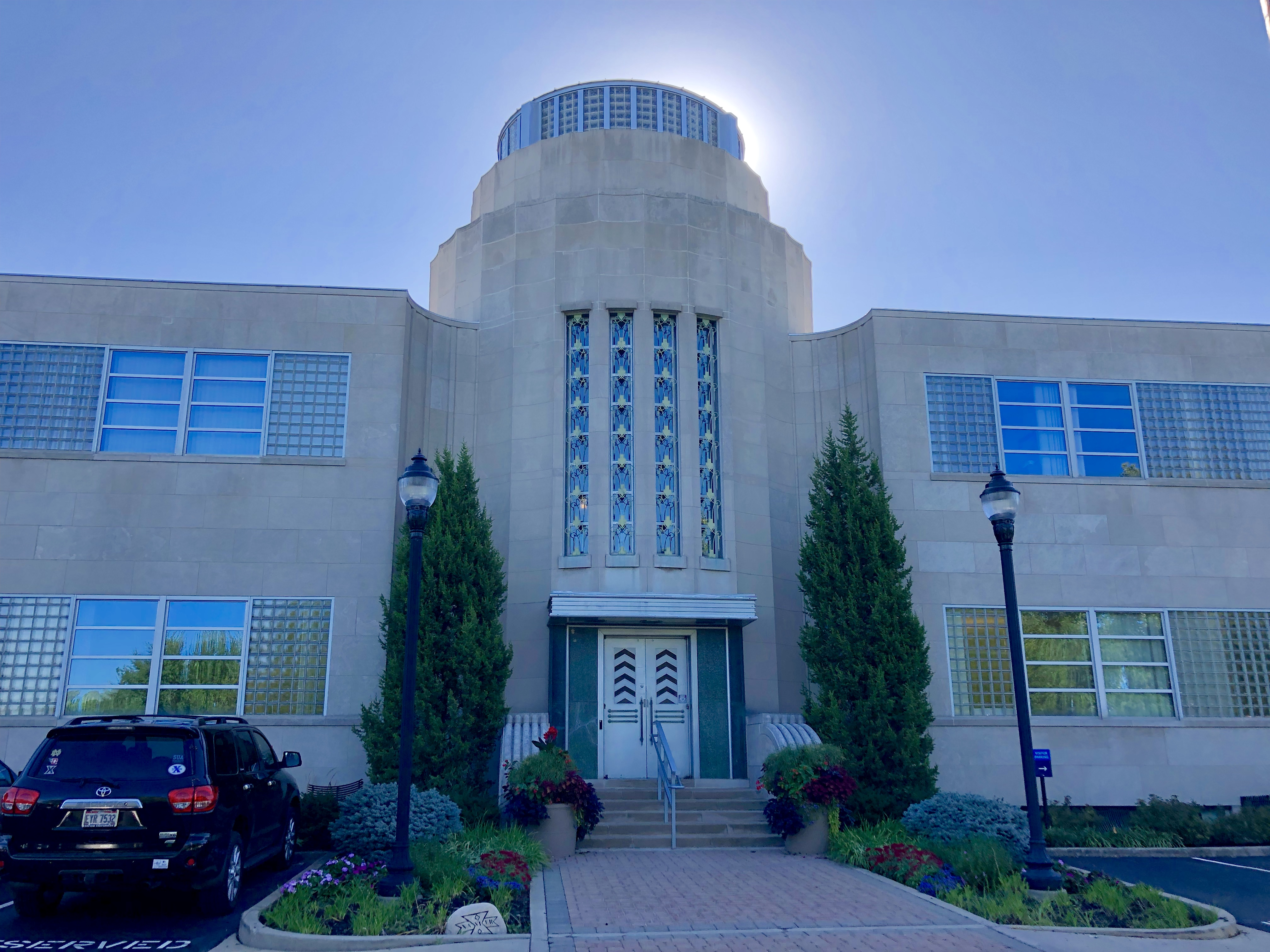 Alumni Center (Coca-Cola Bottling Plant), Xavier University, Evanston, Cincinnati, OH.